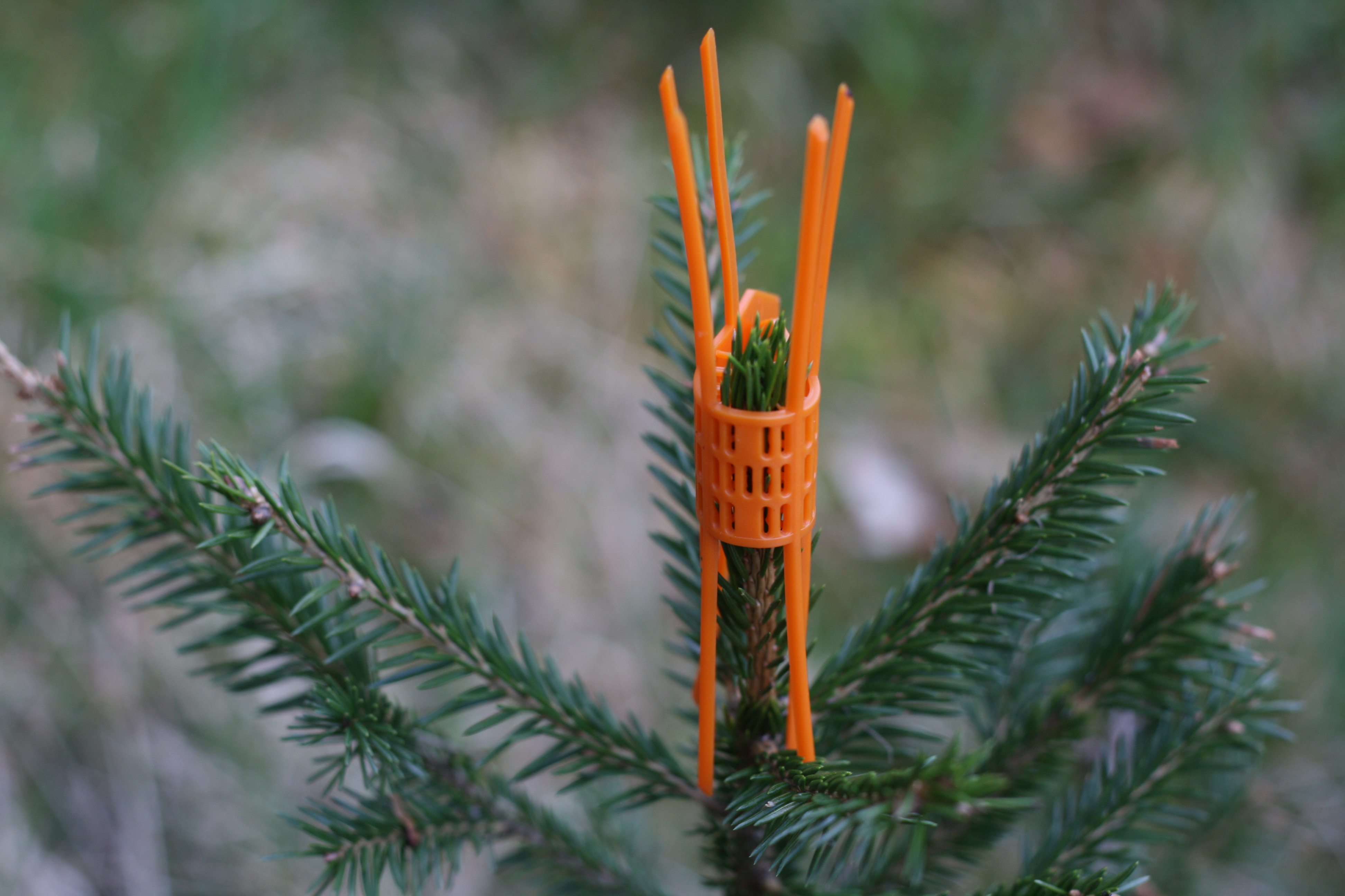 protection against browsing damage - silver fir (abies alba)